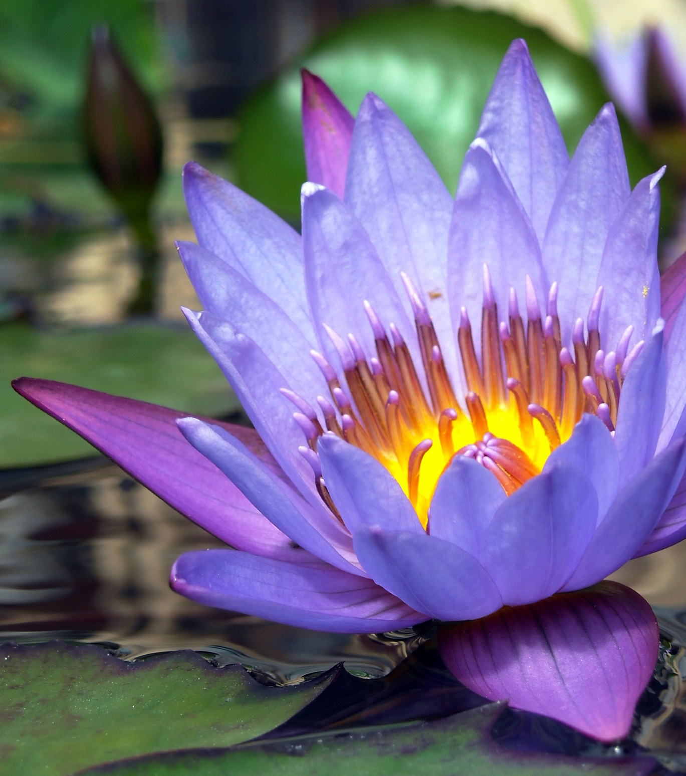 An unidentified water-lily Nymphaea cultivar flowering in the morning light, Sanya city in Hainan island.